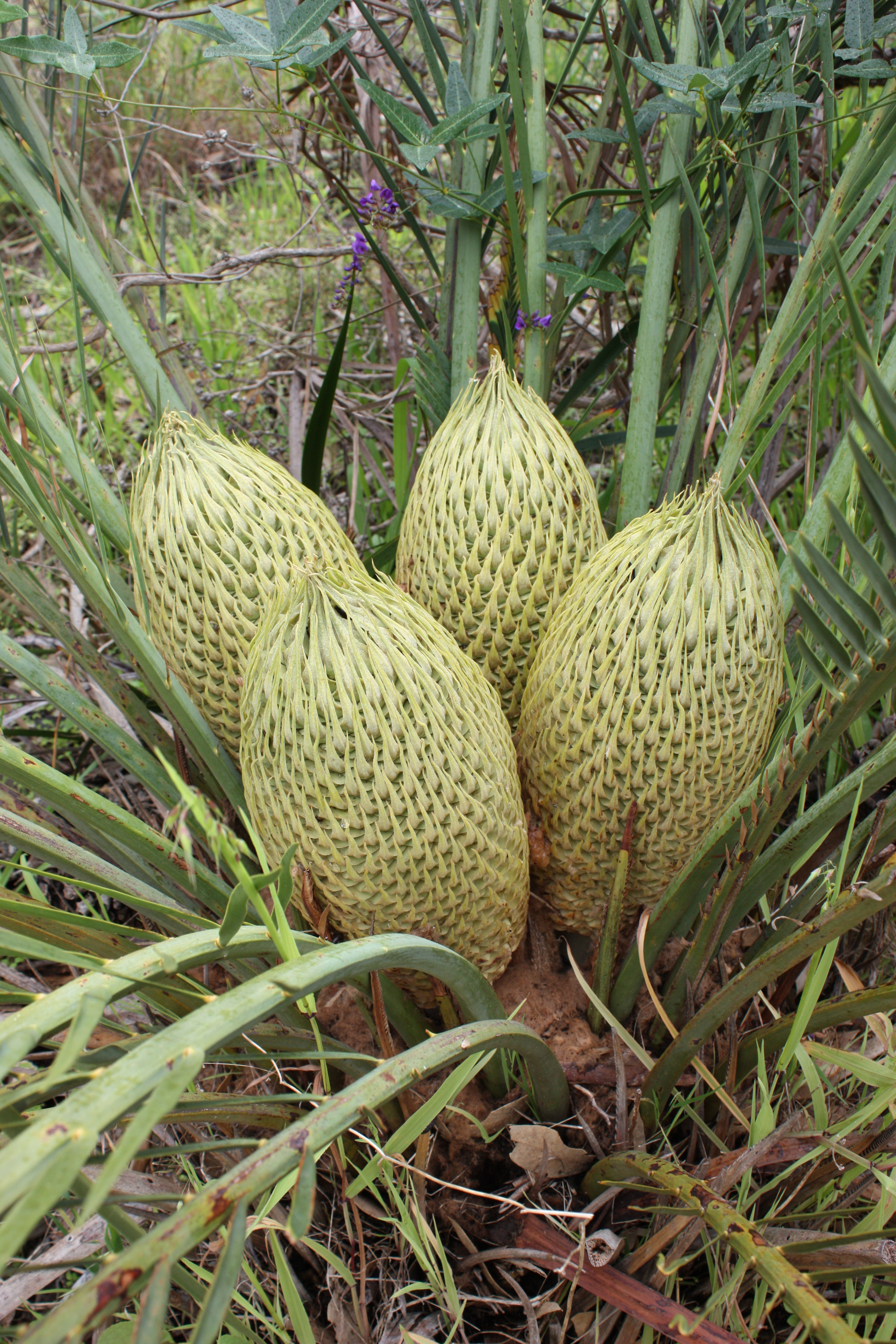 Part of a bulk upload of photographs taken by Gnangarra on Hesperian's camera. Description or deletion or refinement to follow later.